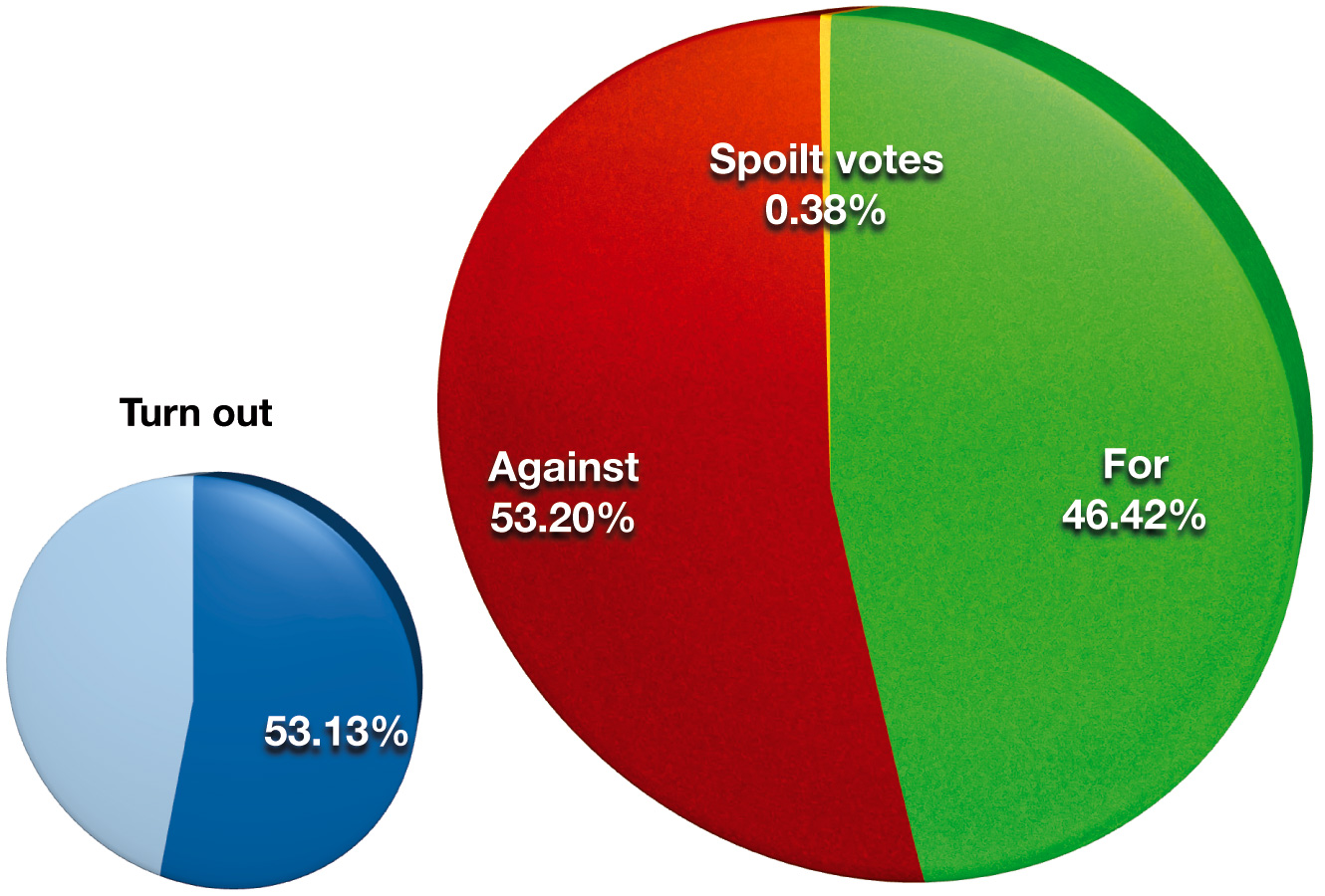 Two graphs showing the turnout and outcome for the Lisbon treaty result in Ireland in 2008.